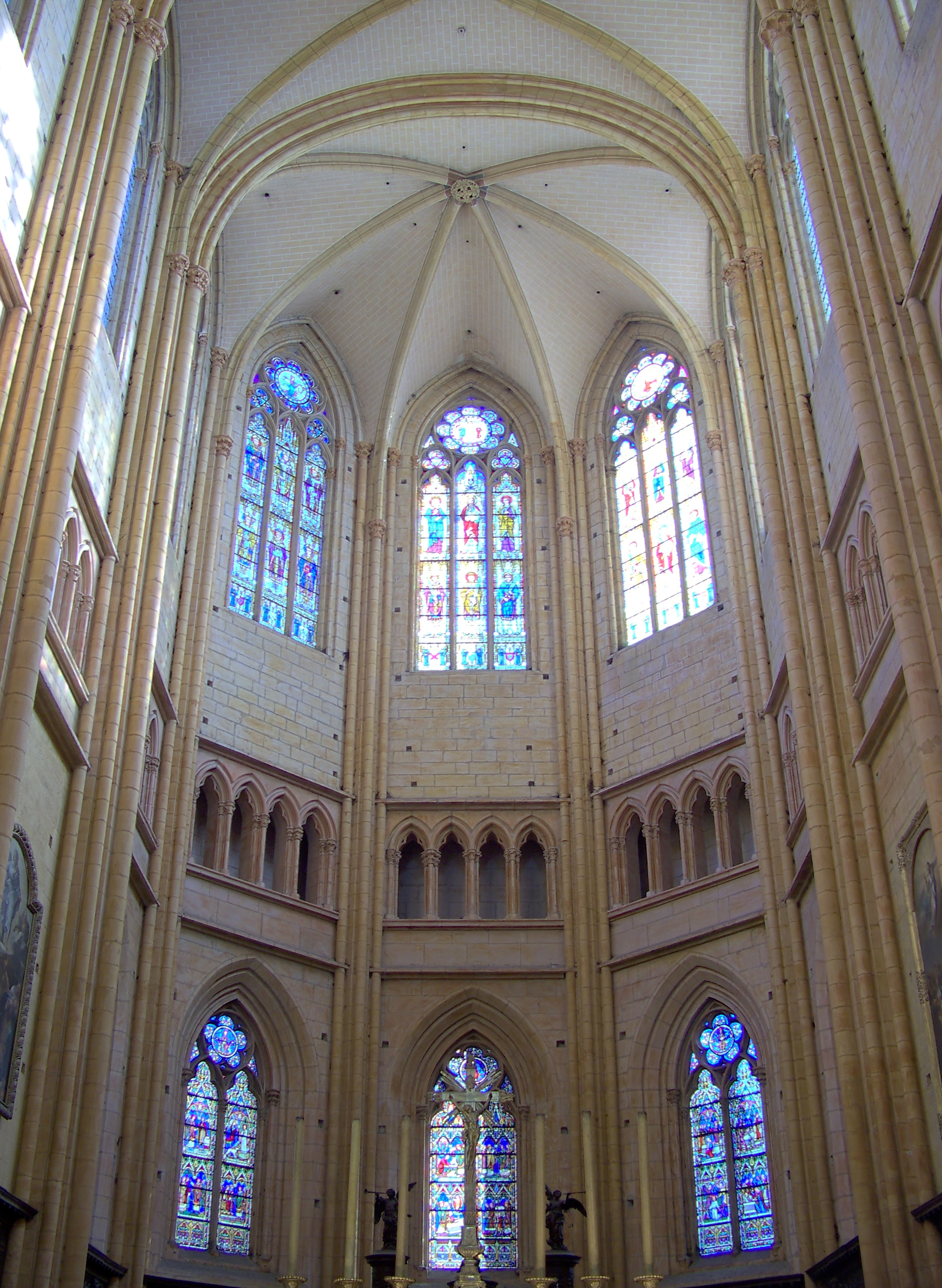 Choir of the Cathédrale Saint-Bénigne in Dijon.